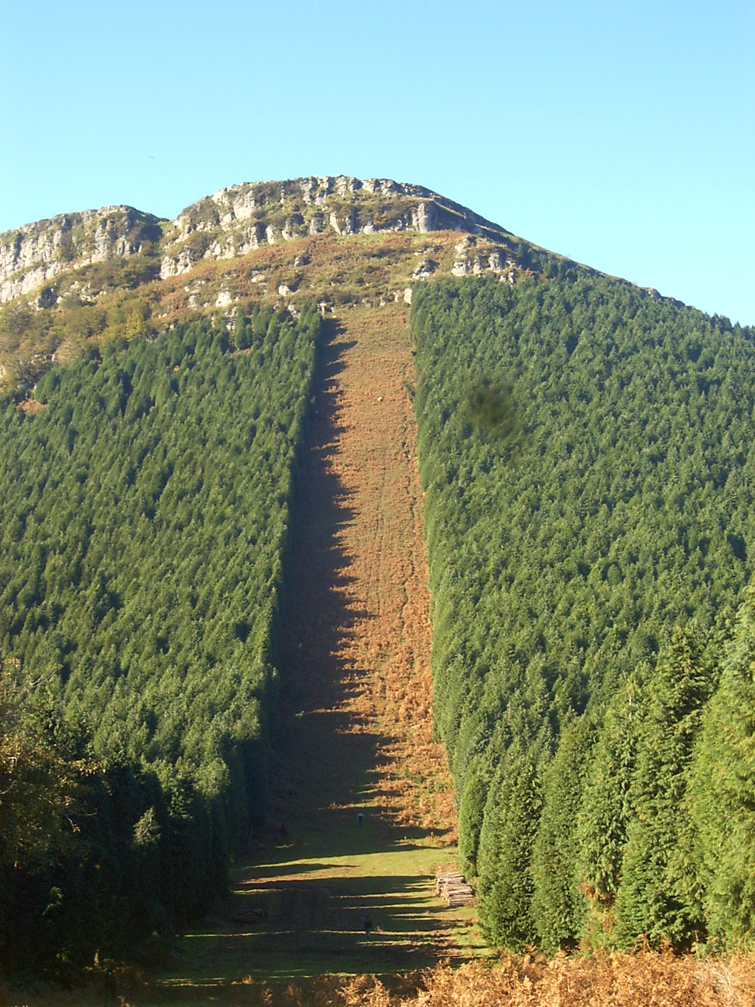 Firebreak on Eretza, a mountain in Basque Country, Spain